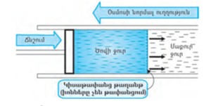 water purification